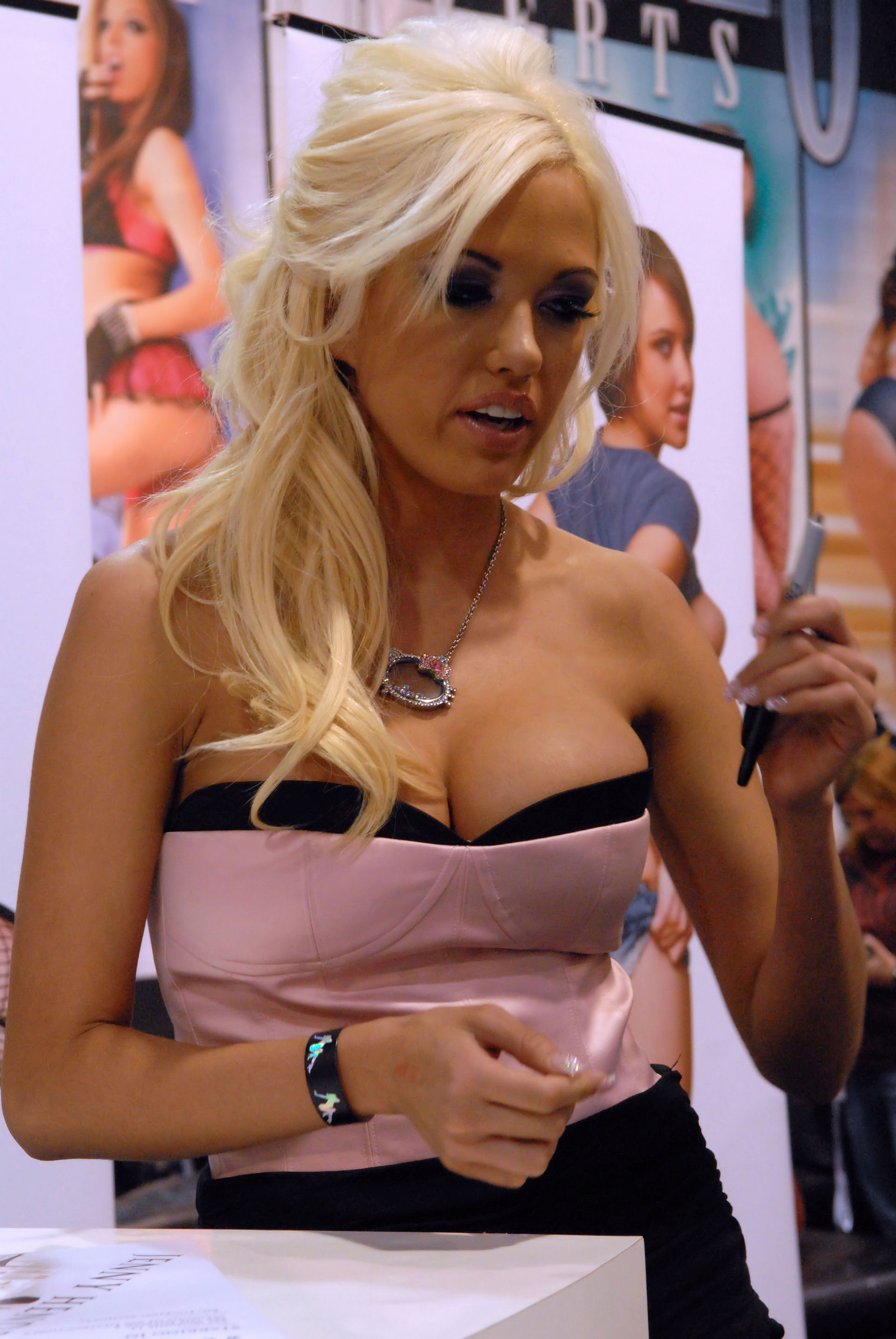 Jenny Hendrix at AVN Adult Entertainment Expo 2010